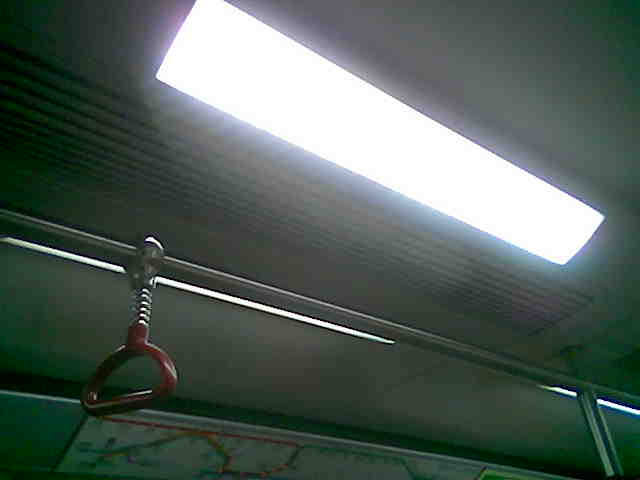 LED Lightning used in MTR Trains in Hong Kong.